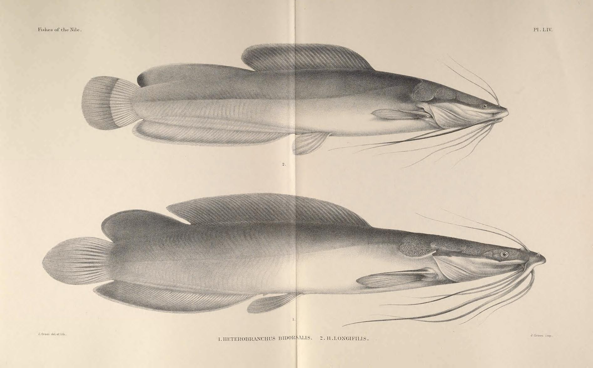 1. Heterobranchus bidorsalis, 2. H. longifilis